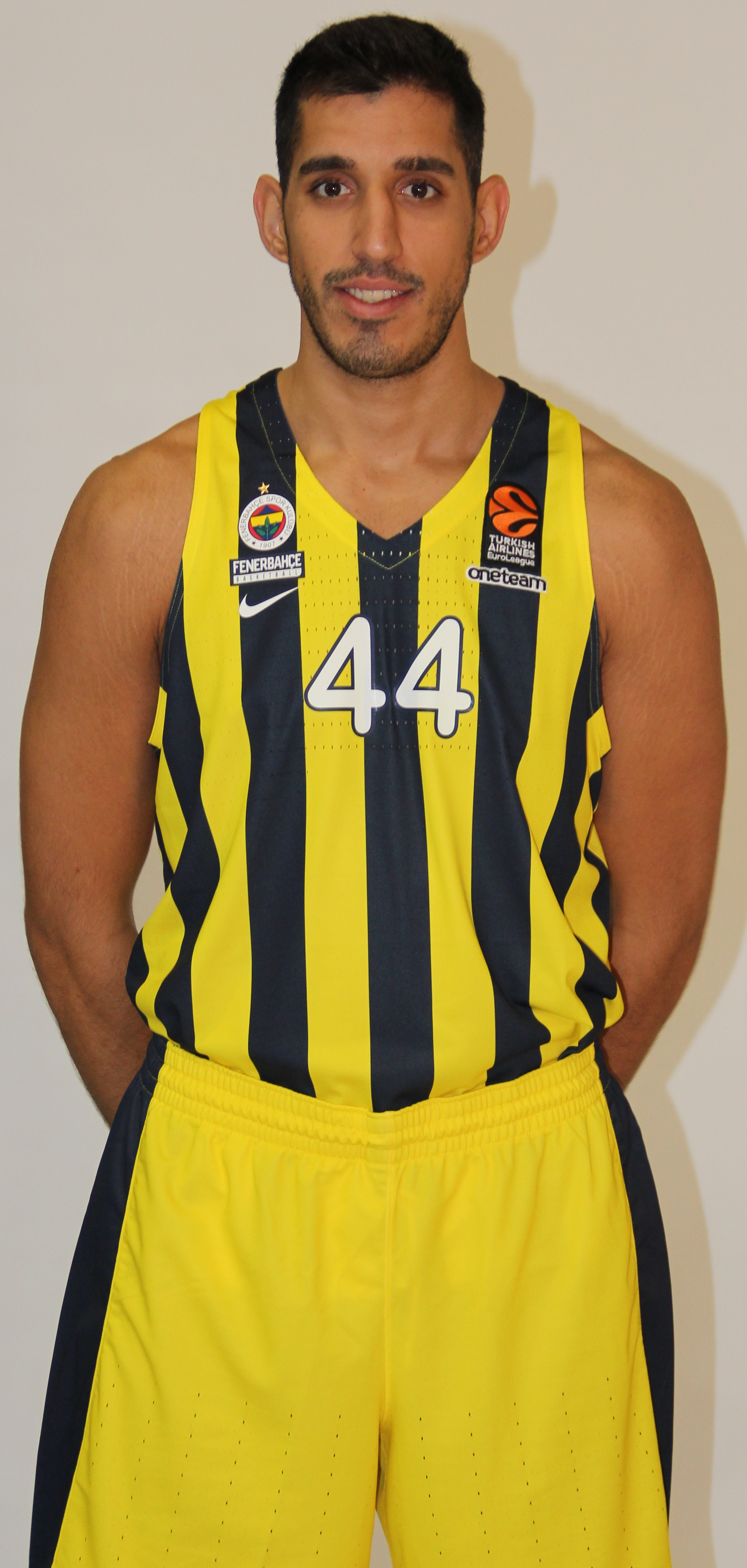 Ahmet Düverioğlu Fenerbahçe Basketball Media Day 20180925